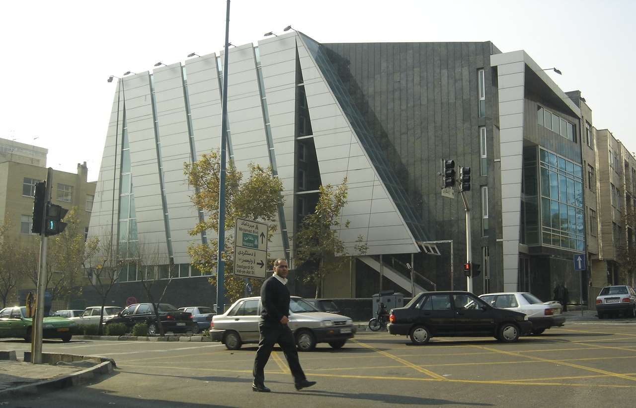 Africa Blvd (former Samuel Jordan Ave.), Tehran, Iran